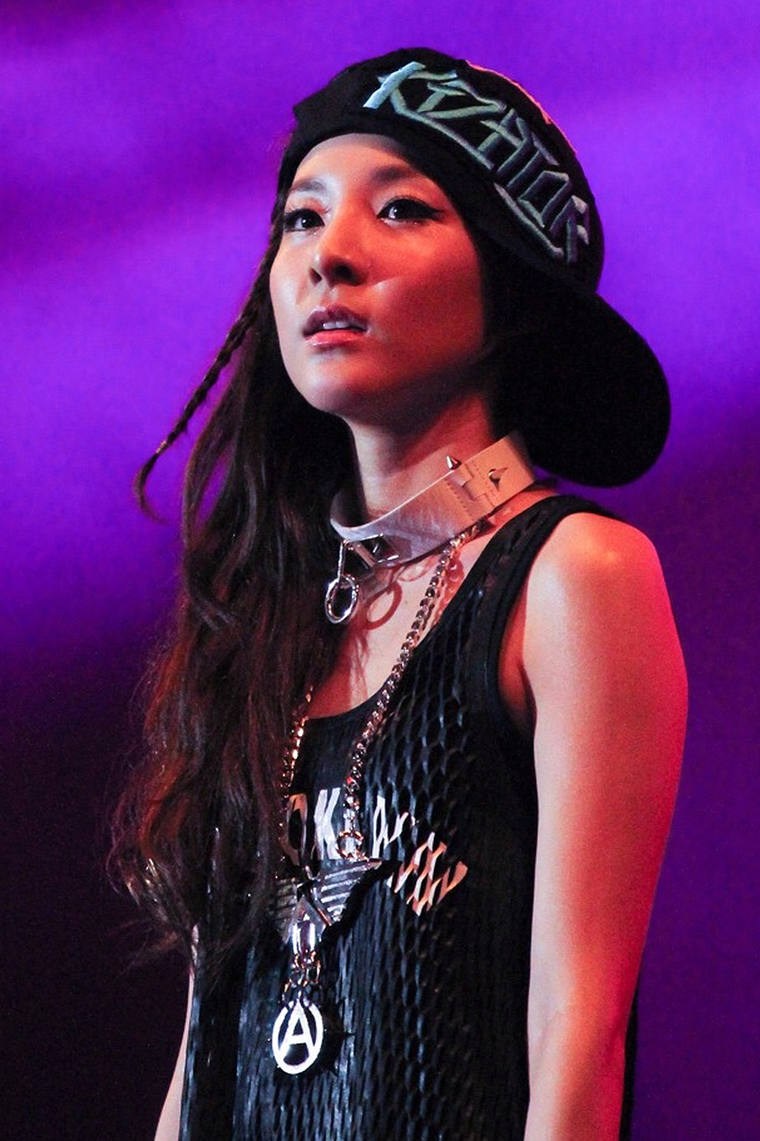 Twin Towers Alive Event on March 23, 2013.